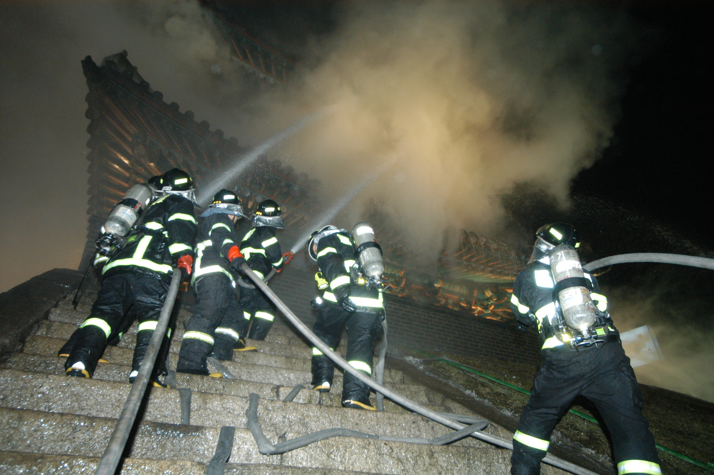 남대문 화재 현장 소방 활동 사진